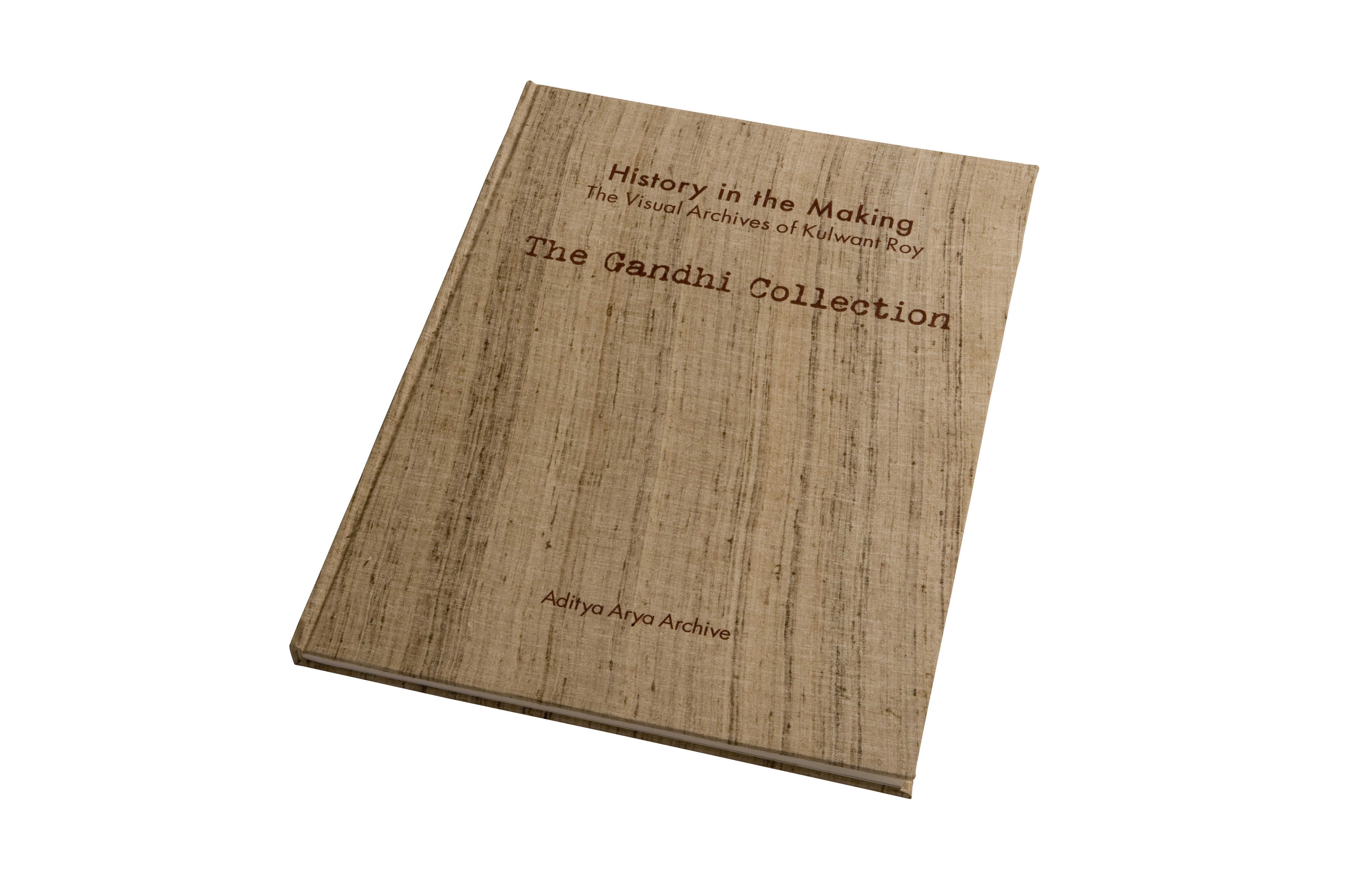 A Gandhi collection was released from Roy's Collection by India Photo Archive Foundation. It was a collector's edition with only 200 copies.